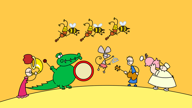 Tom and his friends from the TV-Series "Tom & the Slice of Bread with Strawberryjam & Honey"